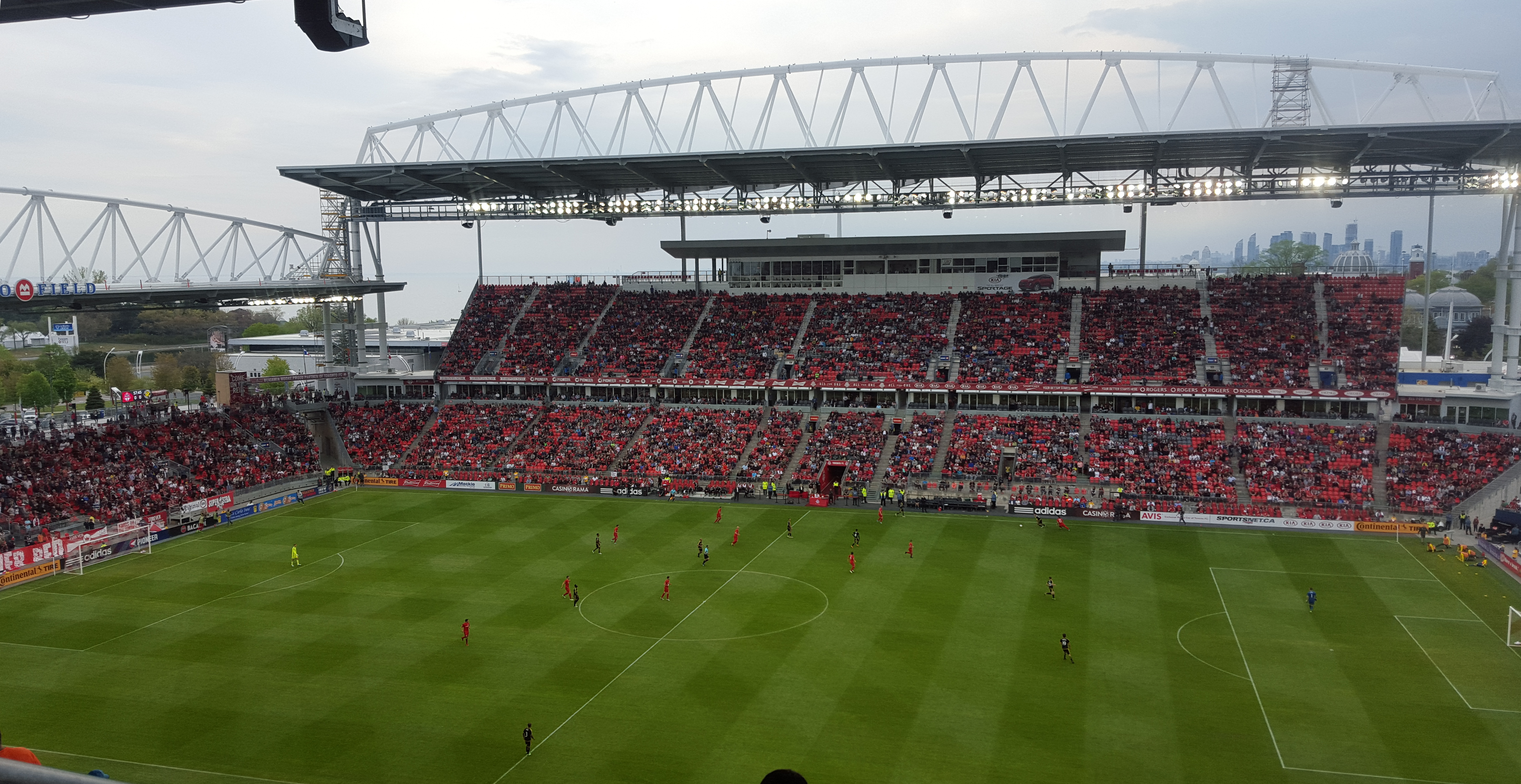 Bmo Field 2016 East Stand